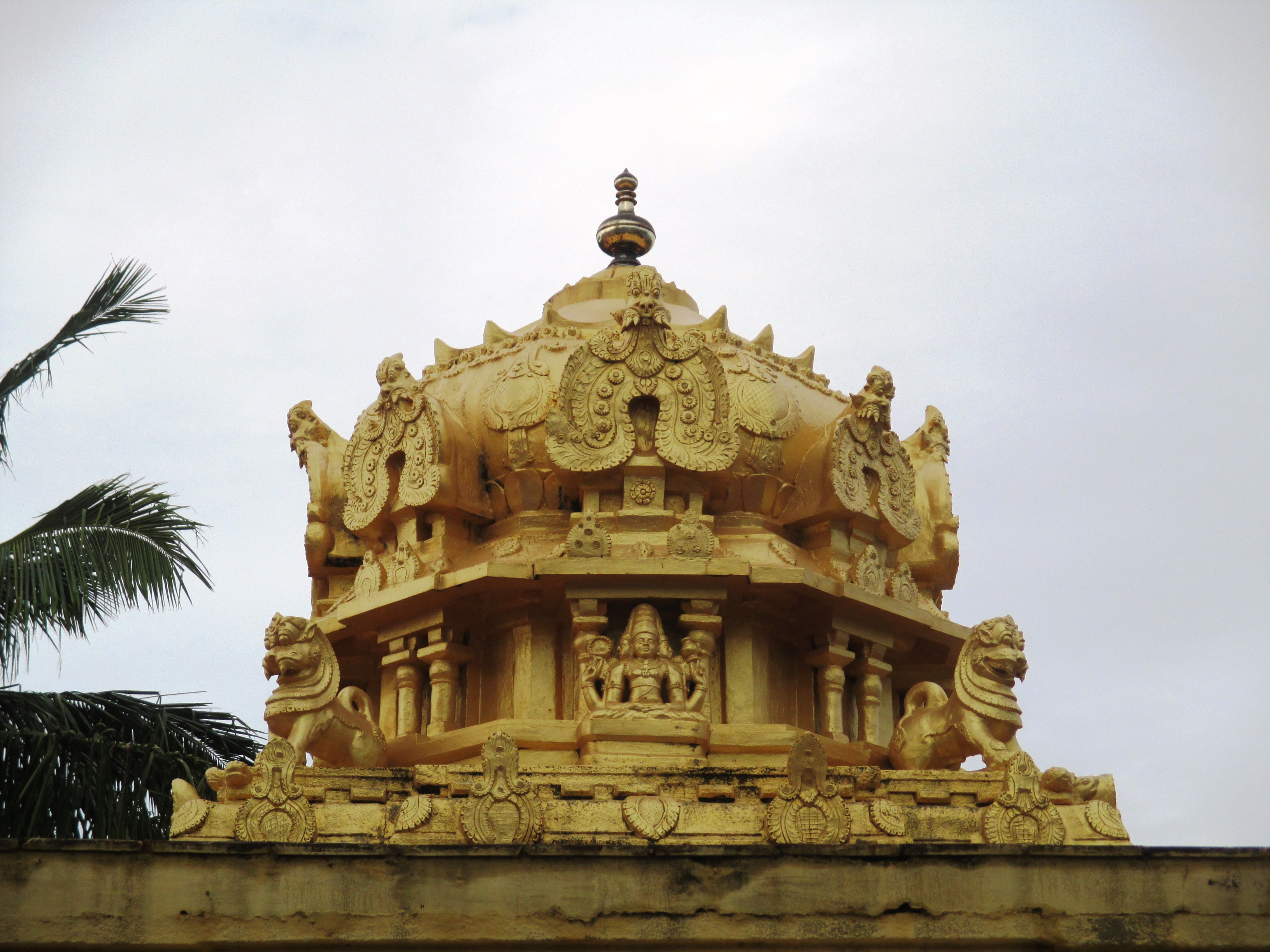 thirupathisaram